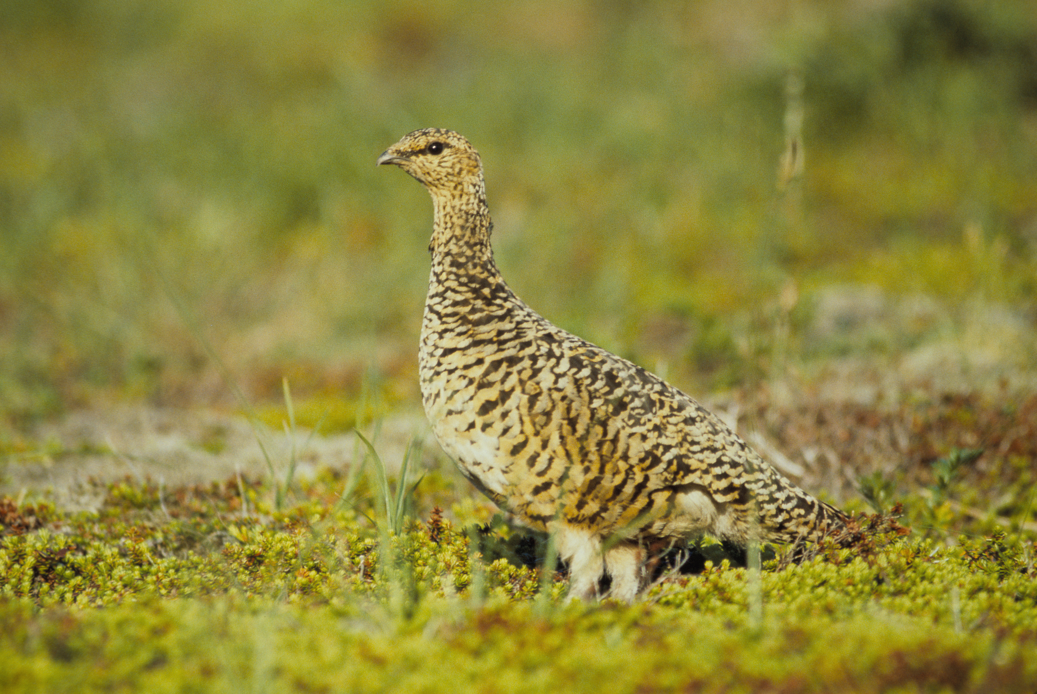 Lagopus lagopus alascensis(? on Kodiak Island lives L. l. alexandrae), Kodiak Island, Alaska